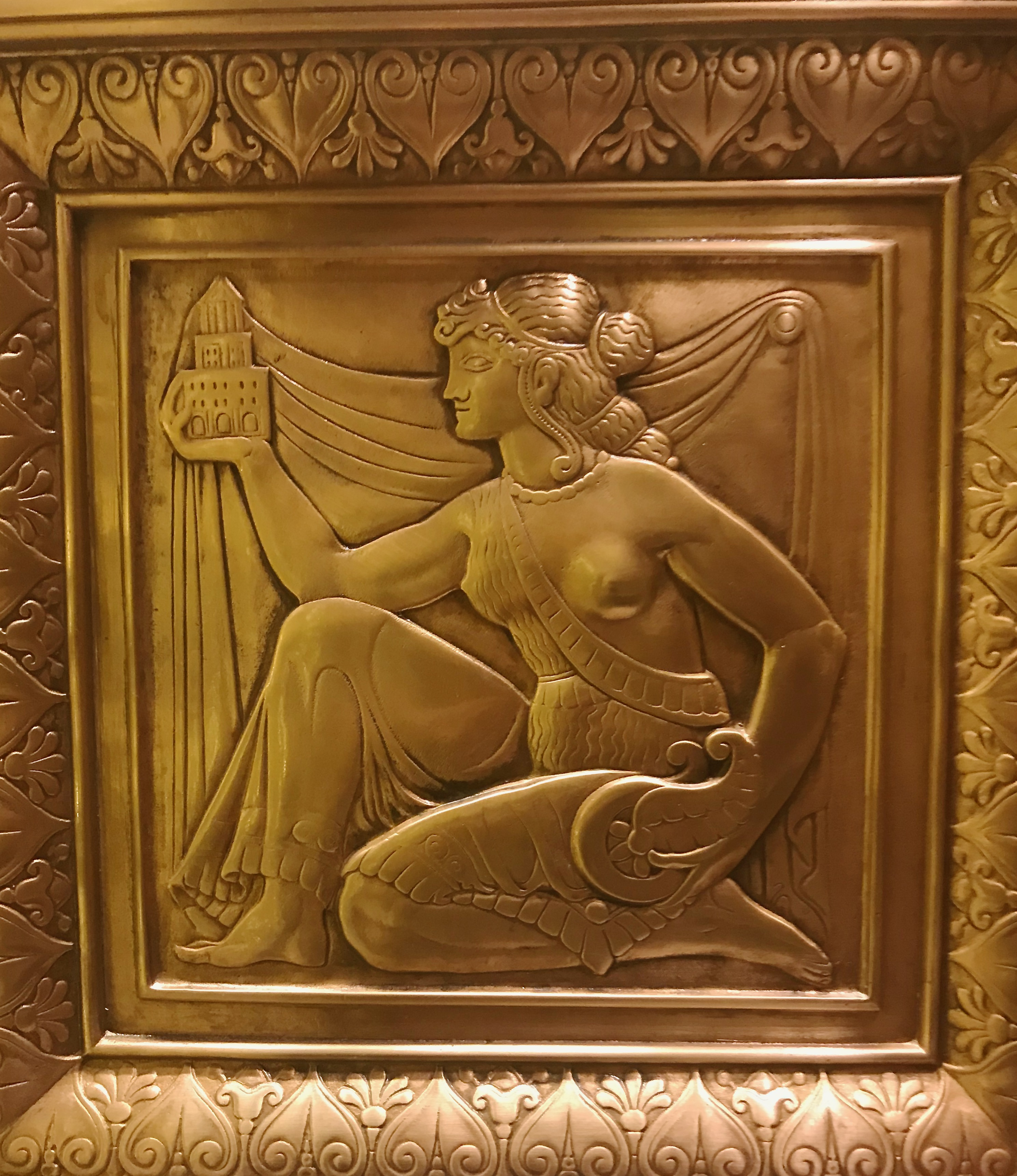 A detail from the gold gilt doors of the Fred F. French building in New York City on 5th Avenue, 45th street corner